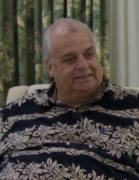 Assistant Secretary Russel met with opposition leaders at the Ambassador's residence in Suva.